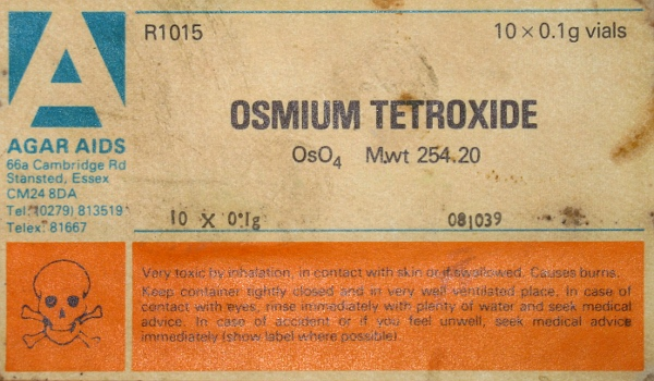 Label for package of 10 ampoules containing 100 mg of OsO4 per ampoule